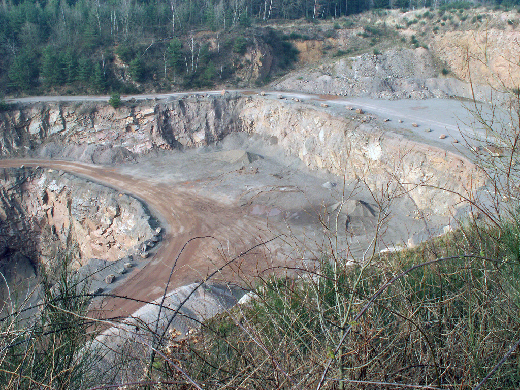 Syenite quarry at Teufelsplatzweg (“devil's place route”) between the villages Messel, Rossdorf and Dieburg, southern Hesse, Germany. The syenite quarried here is part of the crystalline basement (Mid-German Crystalline Rise of the Variscides), on which further to the north the Eocene sediments of the Grube Messel (Messel Formation) came to rest and which is a northerly extension of the crystalline part of the Odenwald Mts.Syenitabbau